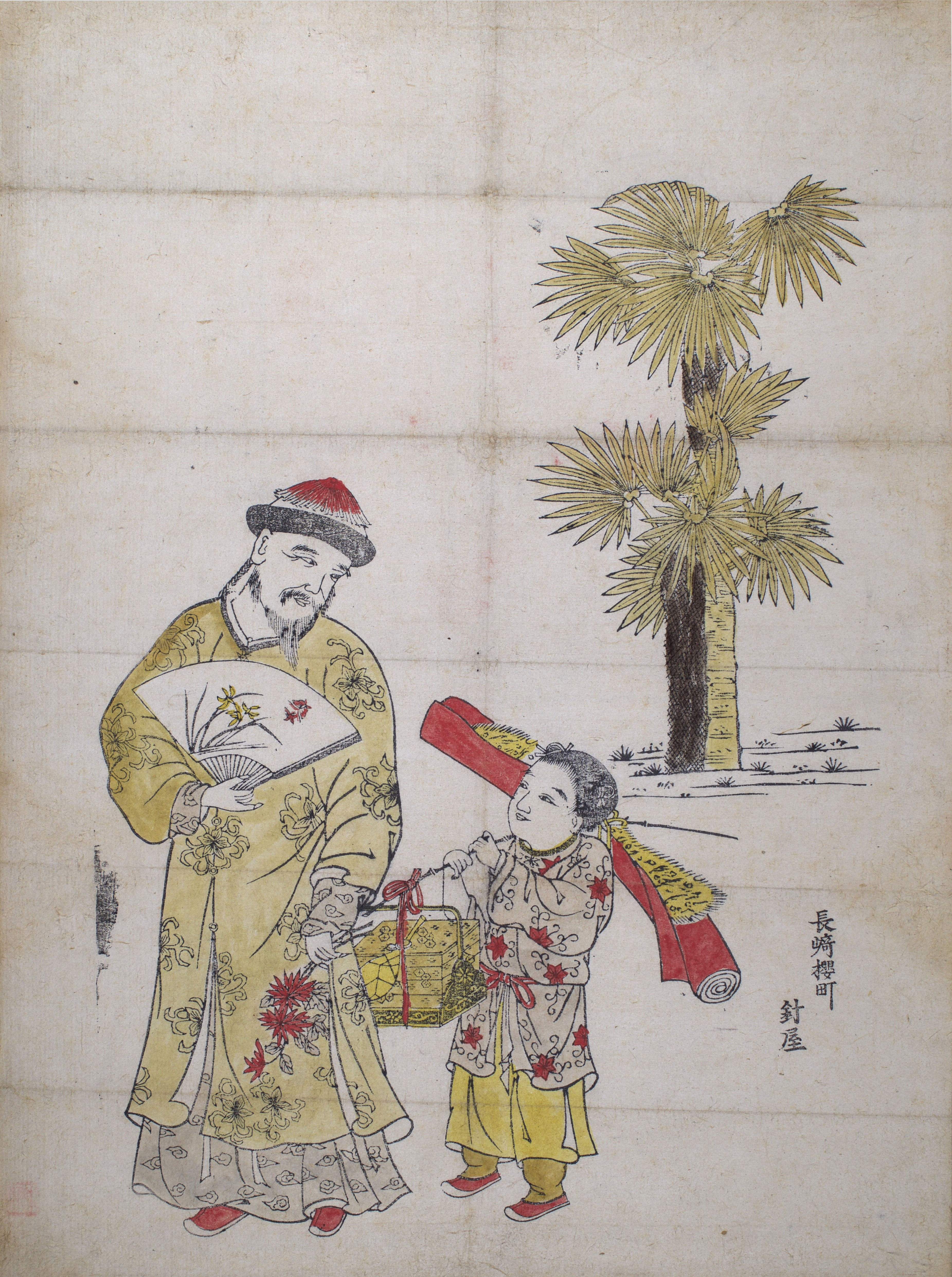 Important Qing Personage, published, as per the inscription, by Hariya of Nagasaki Sakura-machi (長崎櫻町 針屋), Kobe City Museum, Kobe, Hyogo, Japan